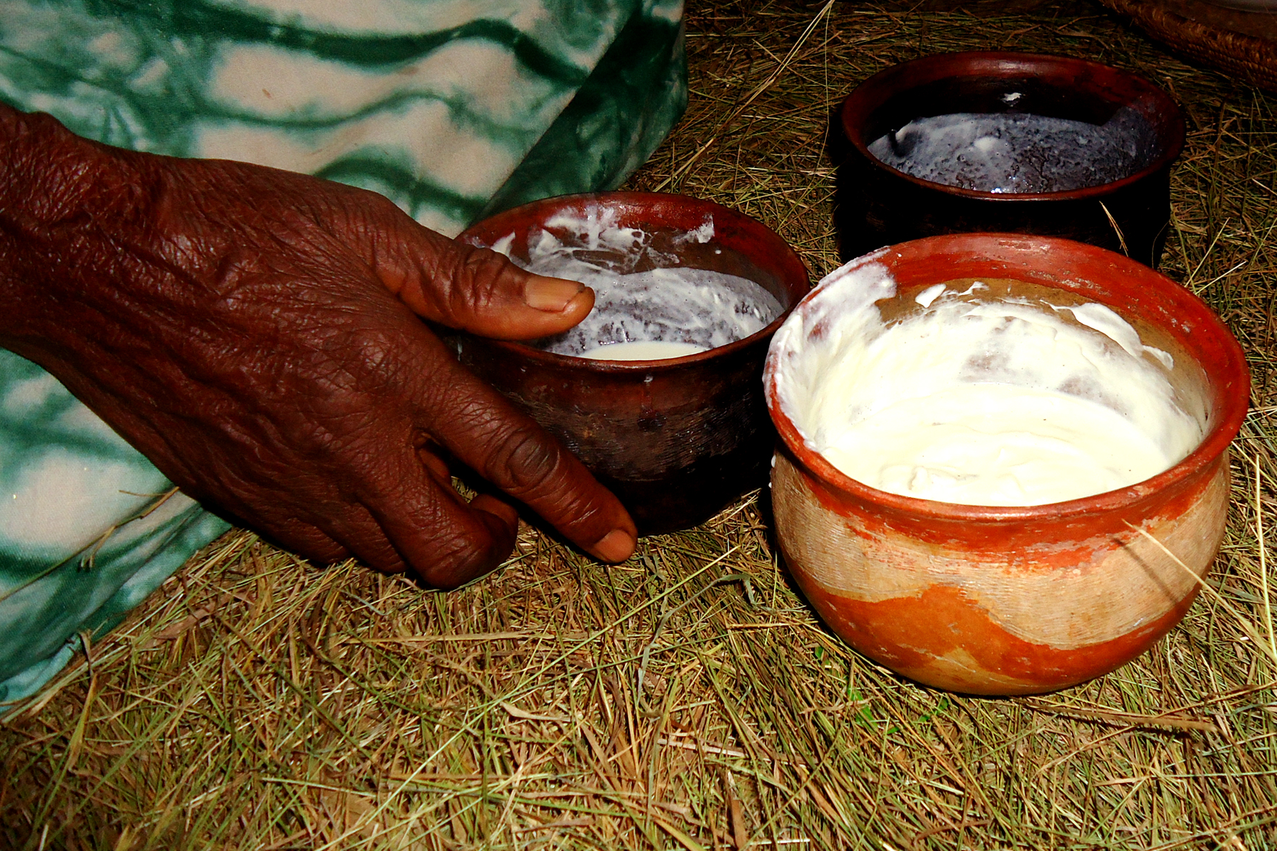 An old won displaying ESHABWE in locally made bowls. Eshabwe is made from butter and is the main sauce for the Bahima in Ankole.